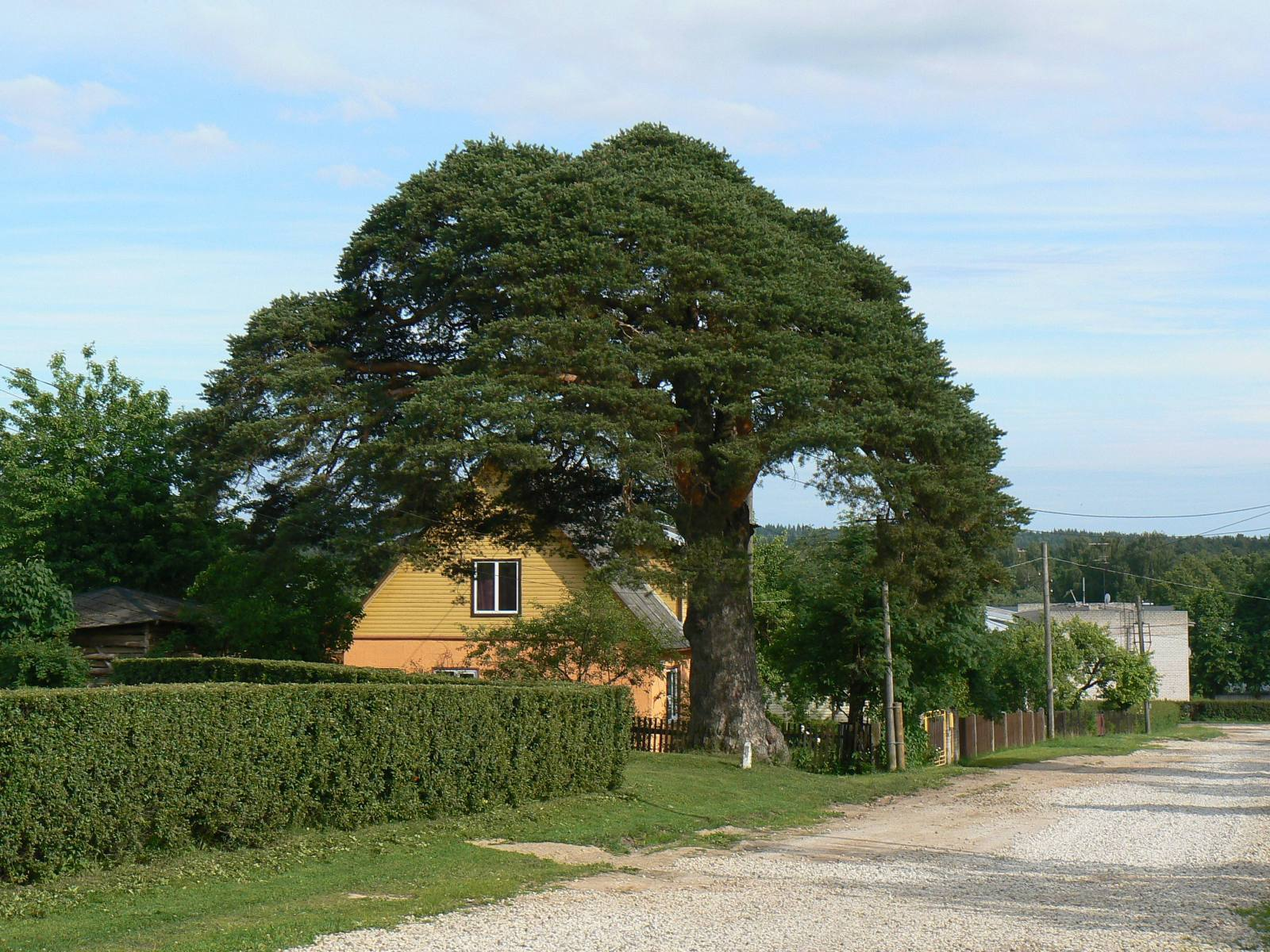 The Arbimäe pine, ca 340 y. old tree